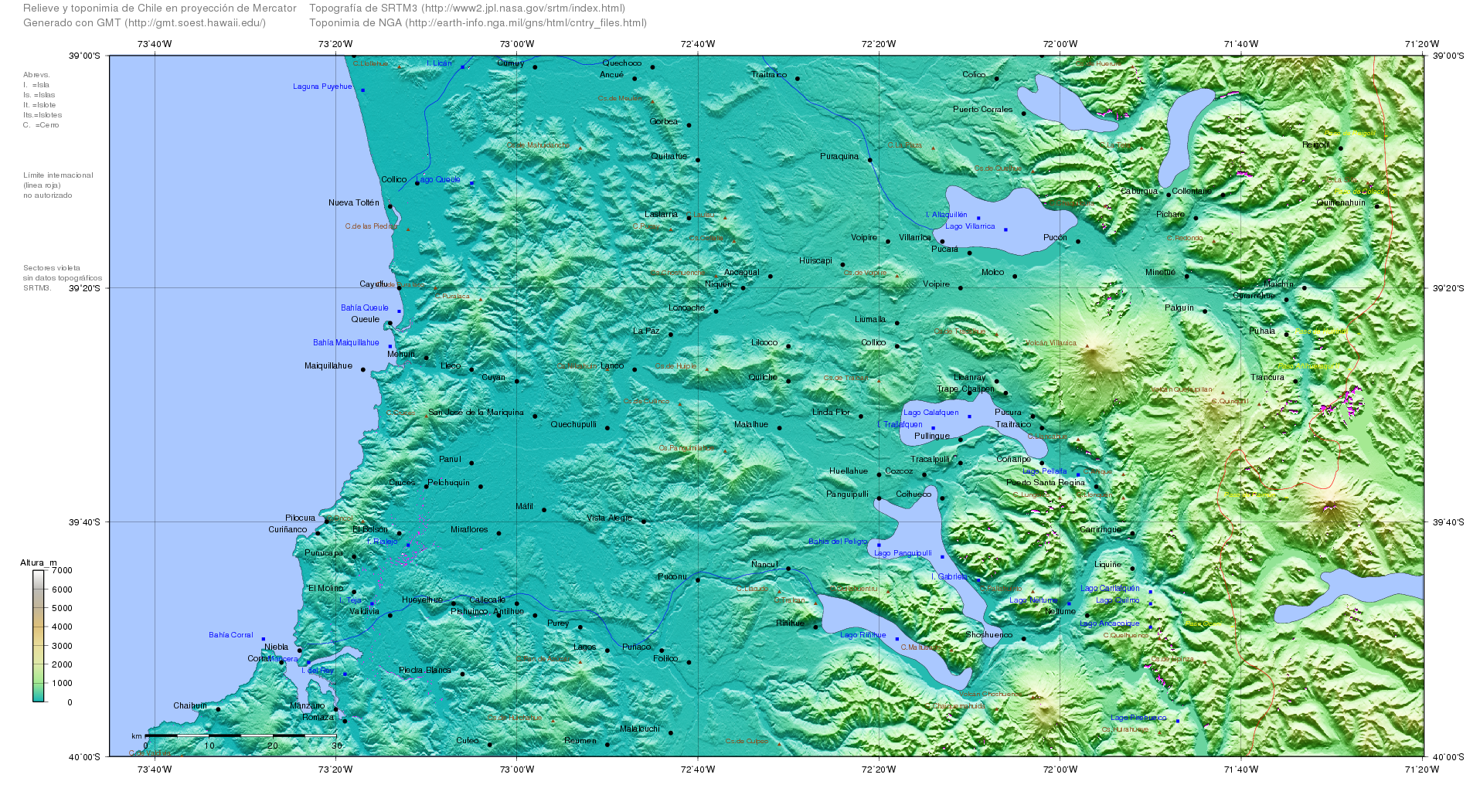 Map of Chile generated with GMT ( topography from SRTM ftp://e0srp01u.ecs.nasa.gov/srtm/version2/SRTM3/ and toponymy from